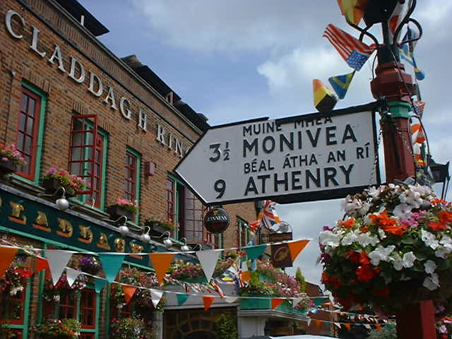 Alledgedly this pub is 9 miles from the low-lying fields of Athenry. The sign is an authentic Irish bi-lingual road sign. It was probably stolen from Or, to be more charitable, since I recently discovered that the Republic has gone metric with its road signs, this sign may have been discarded from its original location and obtained legitimately. In fact this is the Claddagh Ring public house in Church Road, Hendon, north London near the junction with Church End at Photographed 2002 June 29 13:15 (BST)